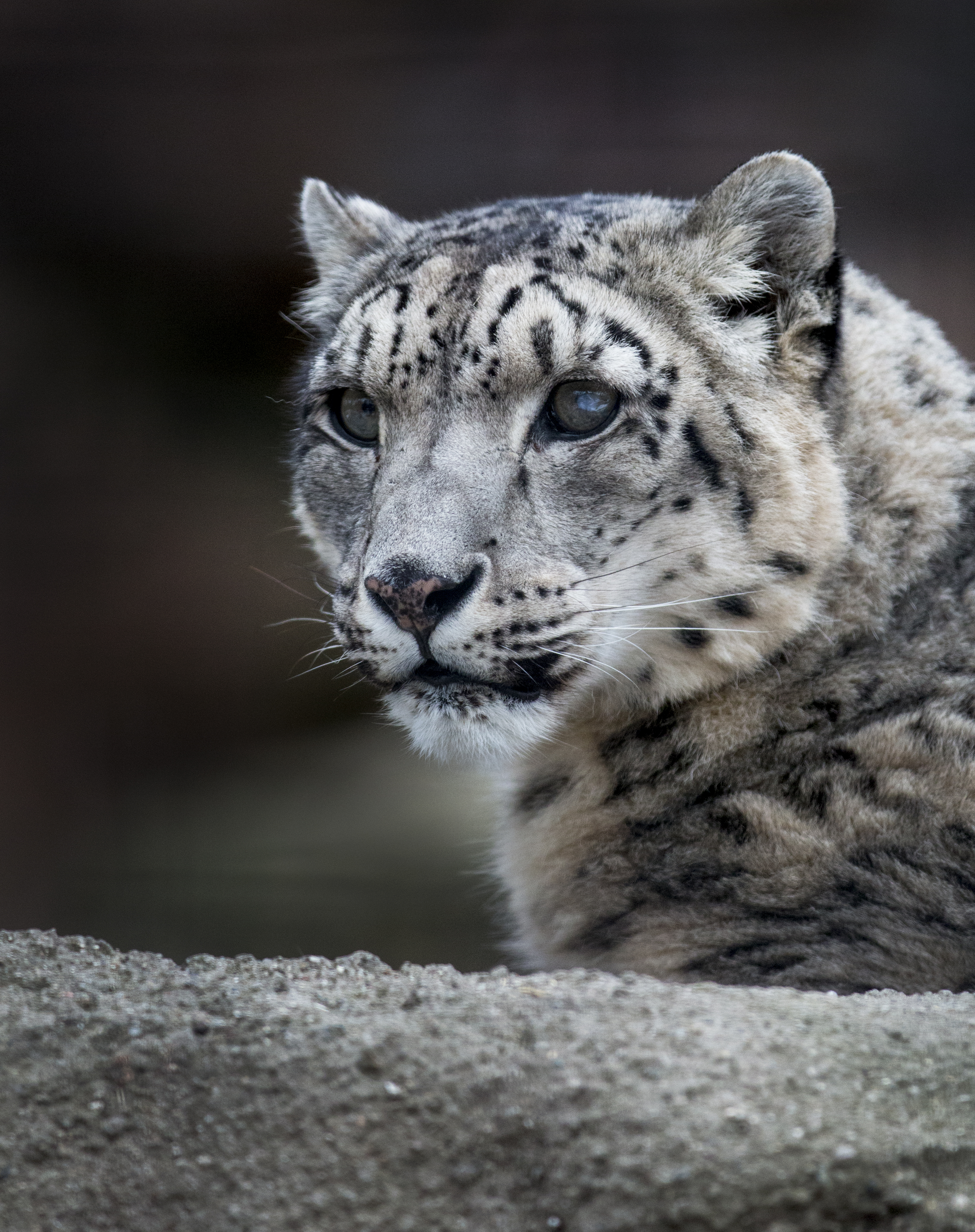 Snow Leopard at Potter Park Zoo in Lansing, Michigan.